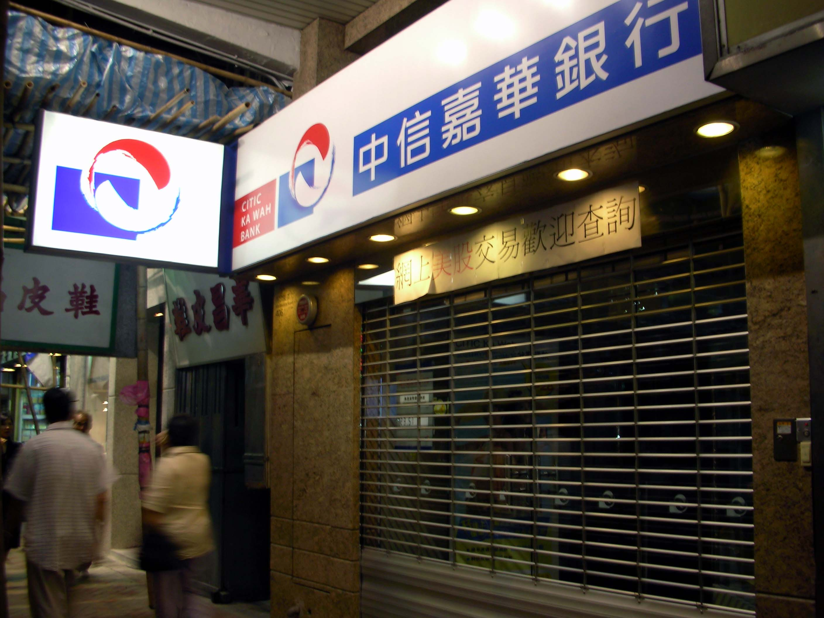 A branch of CITIC Ka Wah Bank Limited, located at To Kwa Wan, Hong Kong